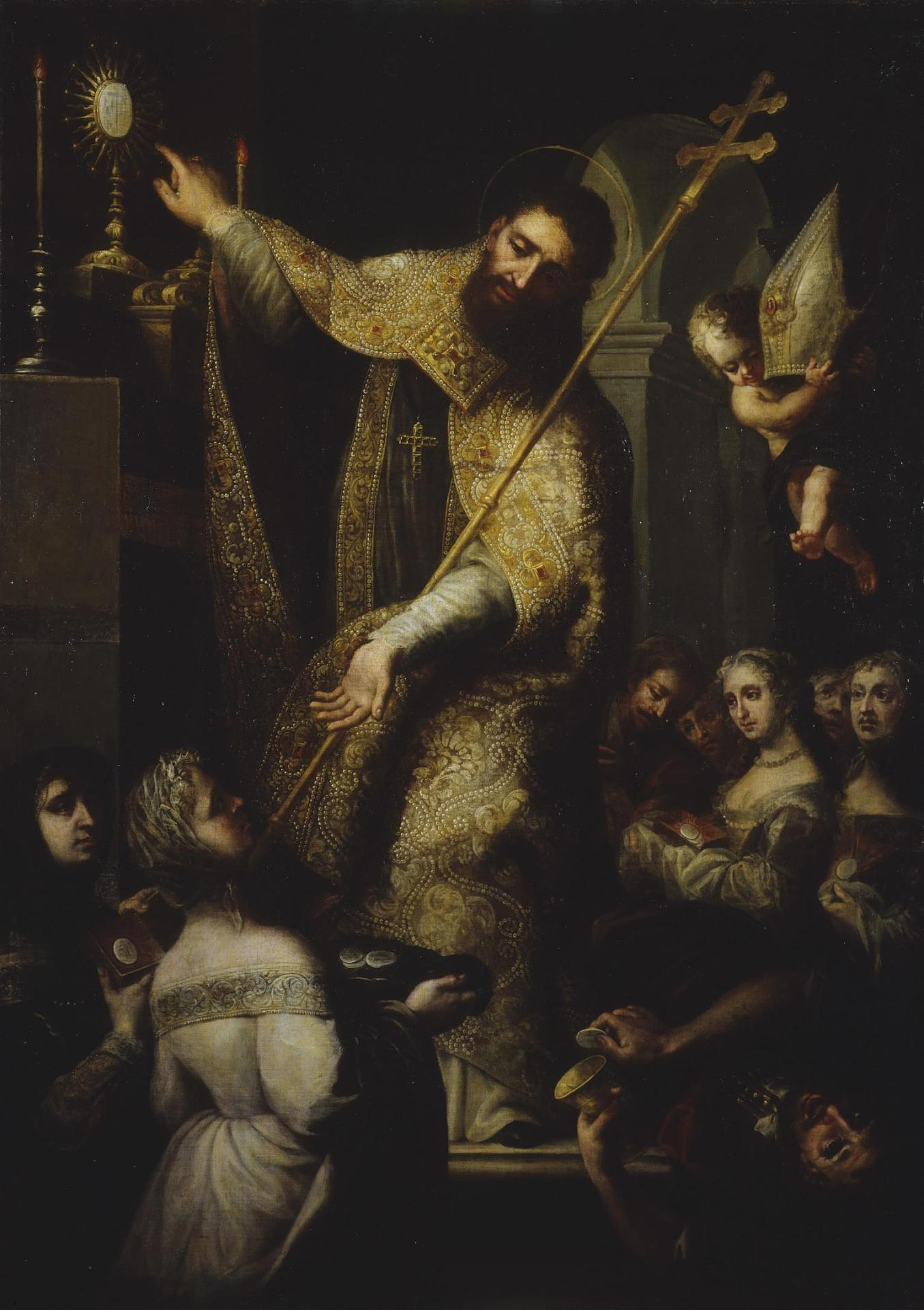 Triumph of St Norbert Hermitage Museum Native nameГосударственный ЭрмитажLocationSaint PetersburgCoordinates59° 56′ 26″ N, 30° 18′ 49″ E Established1764Web pagehermitagemuseum.orgAuthority control : Q132783 VIAF: 128956287 ISNI: 0000 0001 2285 6617 LCCN: n79100241 NLA: 35139924 GND: 2124053-X WorldCat institution QS:P195,Q132783